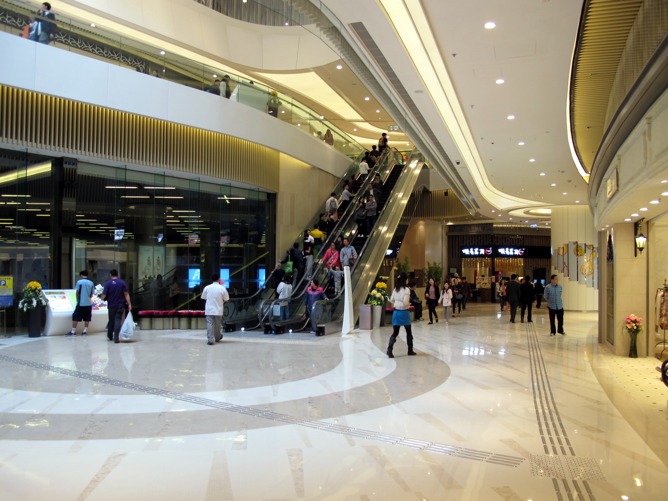 PopCorn 商場地下